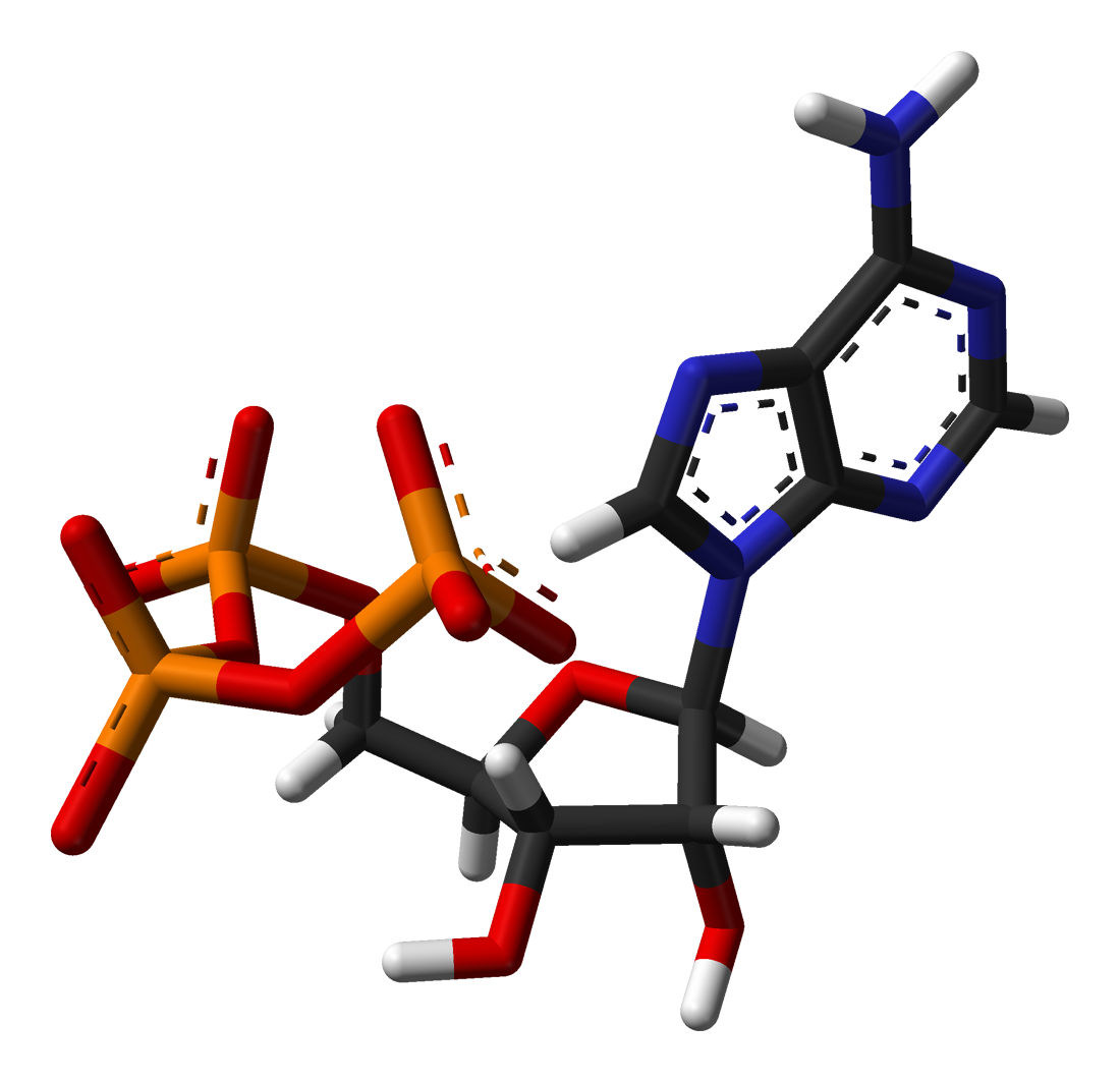 Stick model of adenosine triphosphate (ATP), based on x-ray diffraction data from Olga Kennard, N. W. Isaacs, W. D. S. Motherwell, J. C. Coppola, D. L. Wampler, A. C. Larson, D. G. Watson (1971). "The Crystal and Molecular Structure of Adenosine Triphosphate". Proceedings of the Royal Society of London. Series A, Mathematical and Physical Sciences 325: 401-436.